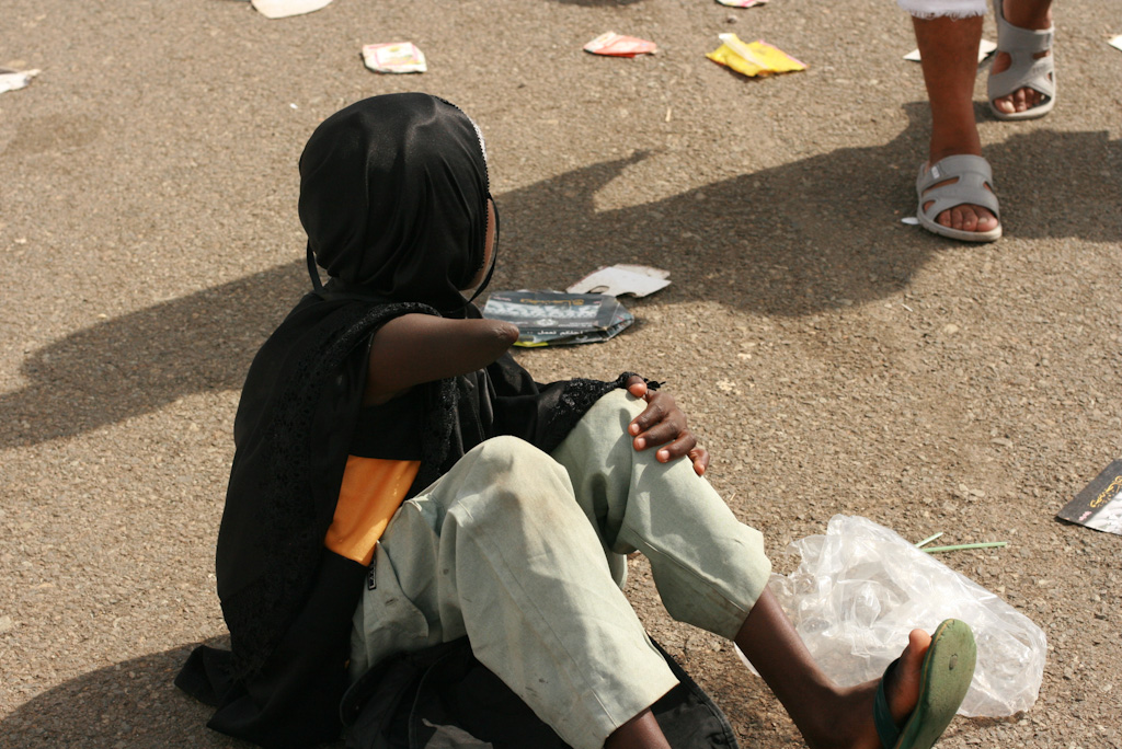 Photo by Omar Chatriwala